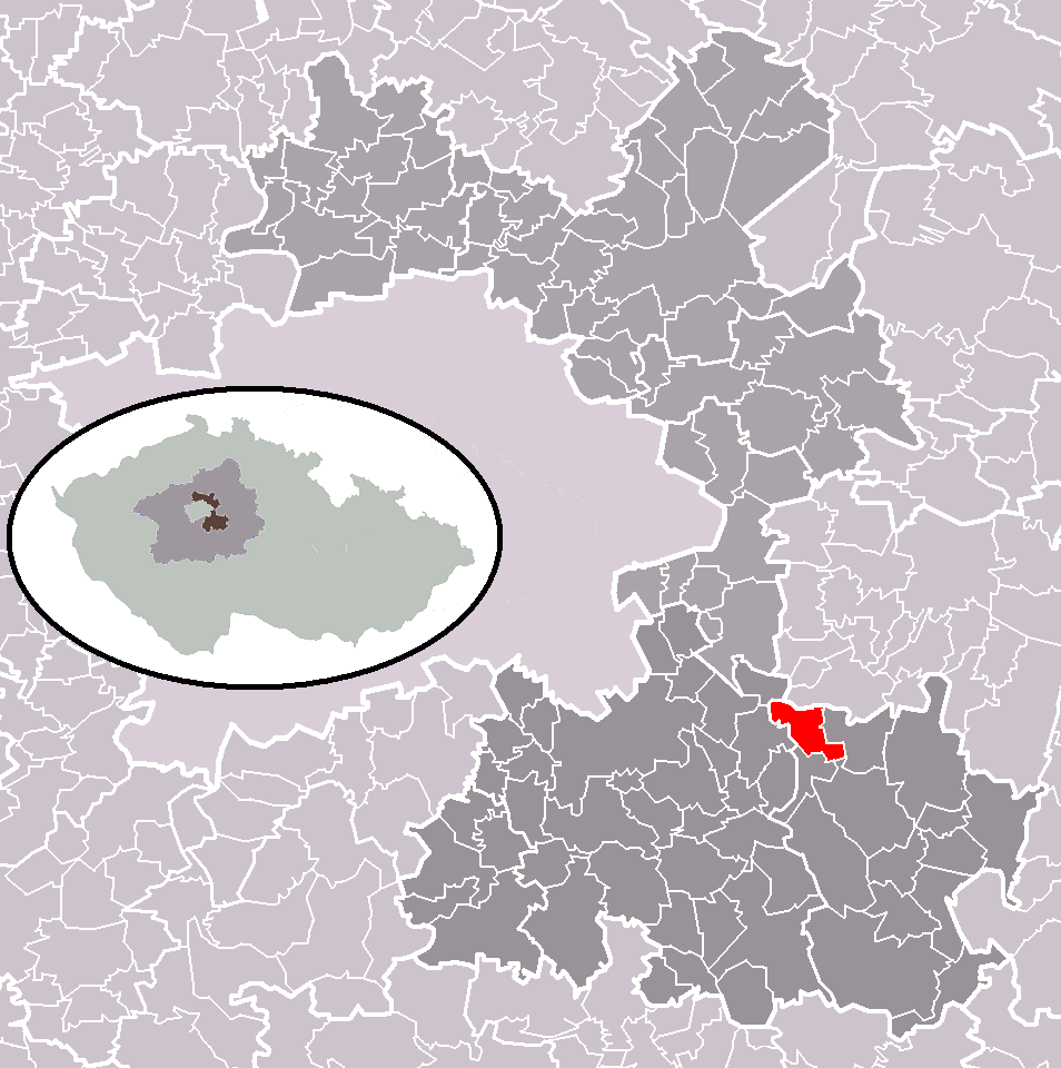 Location of Štíhlice municipality within Prague-East District and administrative area of Říčany as a Municipality with Extended Competence.